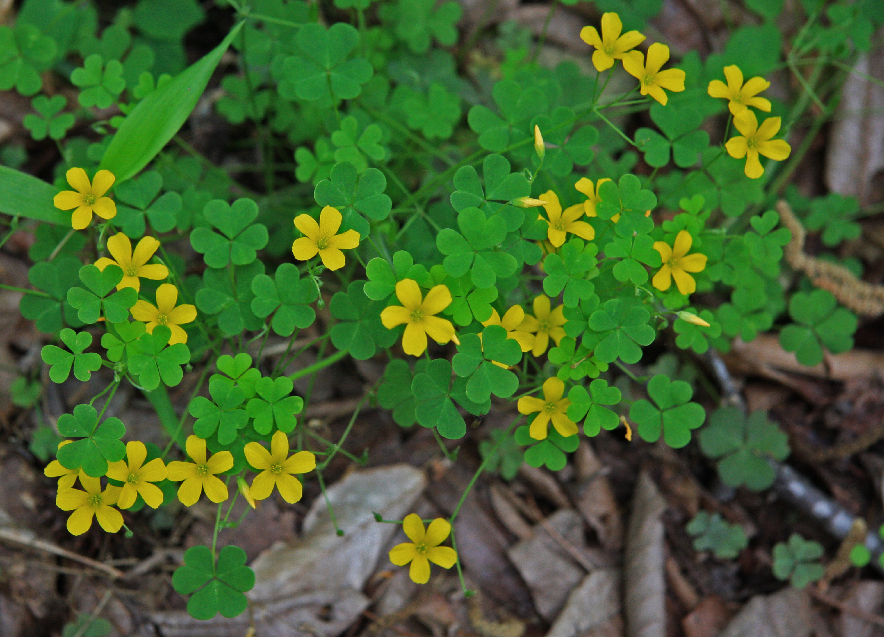 Yellow wood sorrel (Oxalis stricta), 5-petaled yellow flowers and triple heart-shaped, clover-like leaves. Near New Hope Creek, Duke Forest Korstian Division, Durham, North Carolina USA.